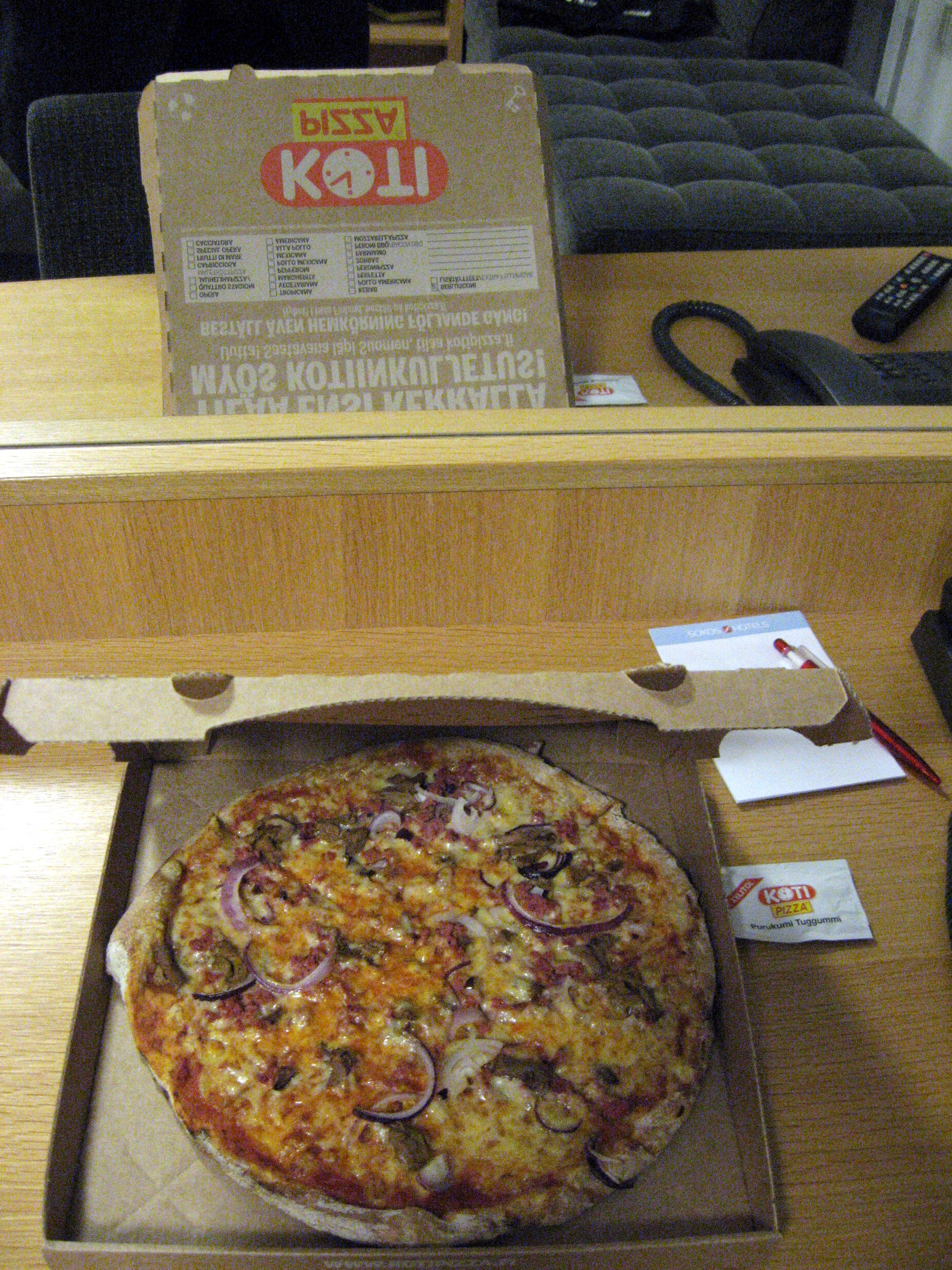 Pizza Berlusconi, so-called ‘best pizza in the world’, from Finnish pizza chain Kotipizza.